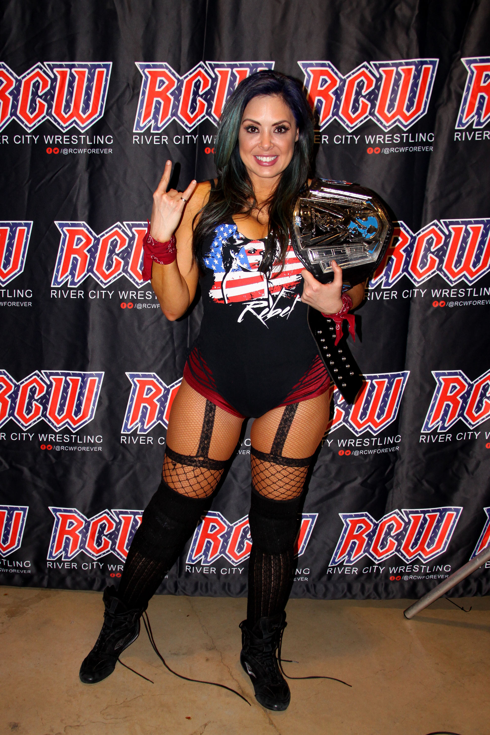 pro wrestler Rebel as champion